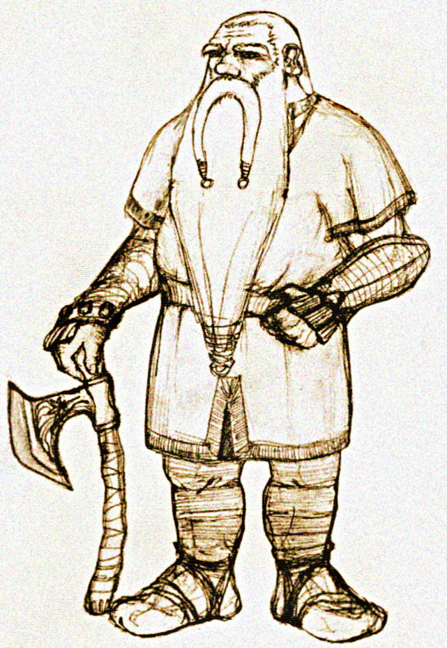 Old dwarf